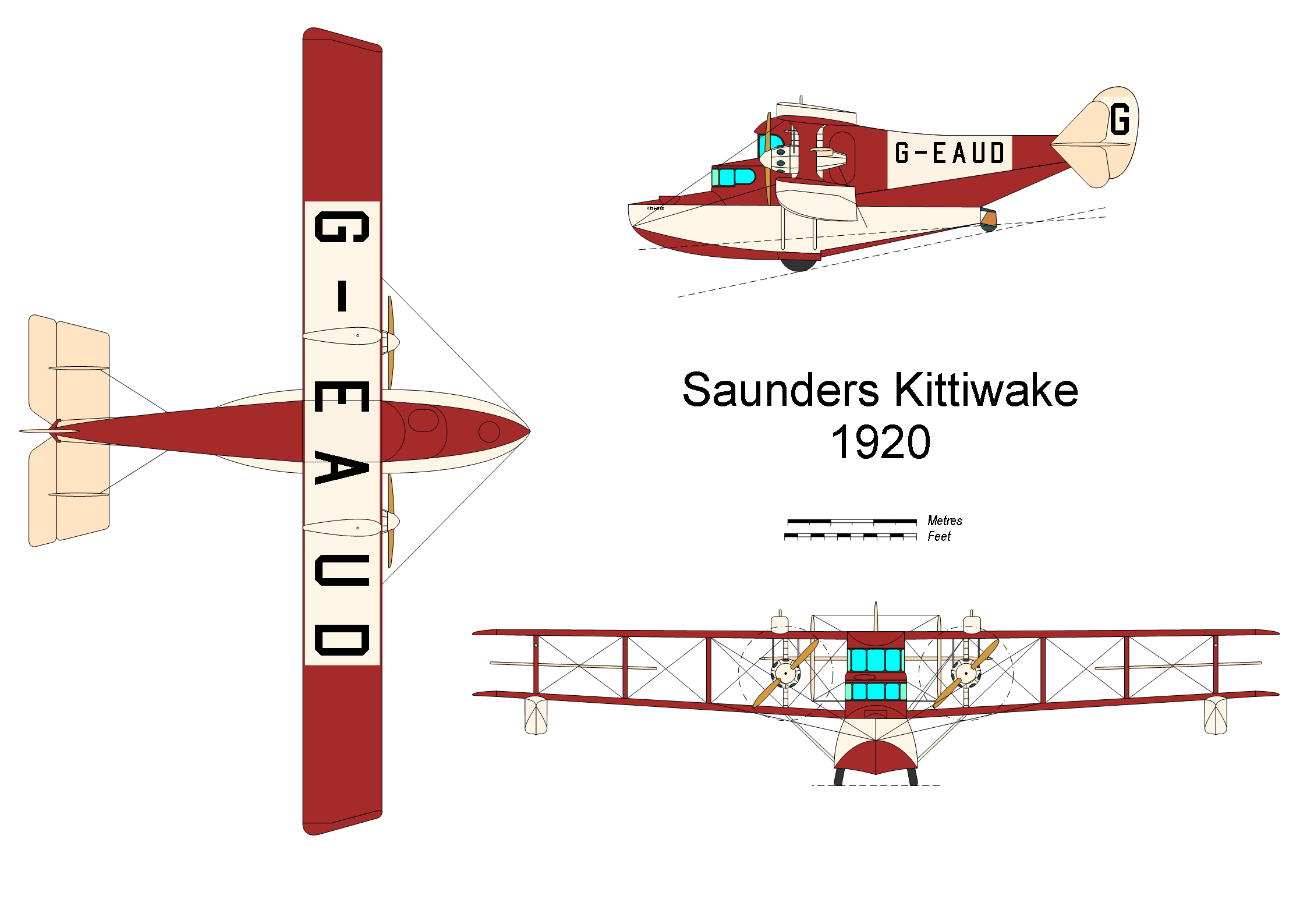 Sanders Kittiwake G-EAUD 1920